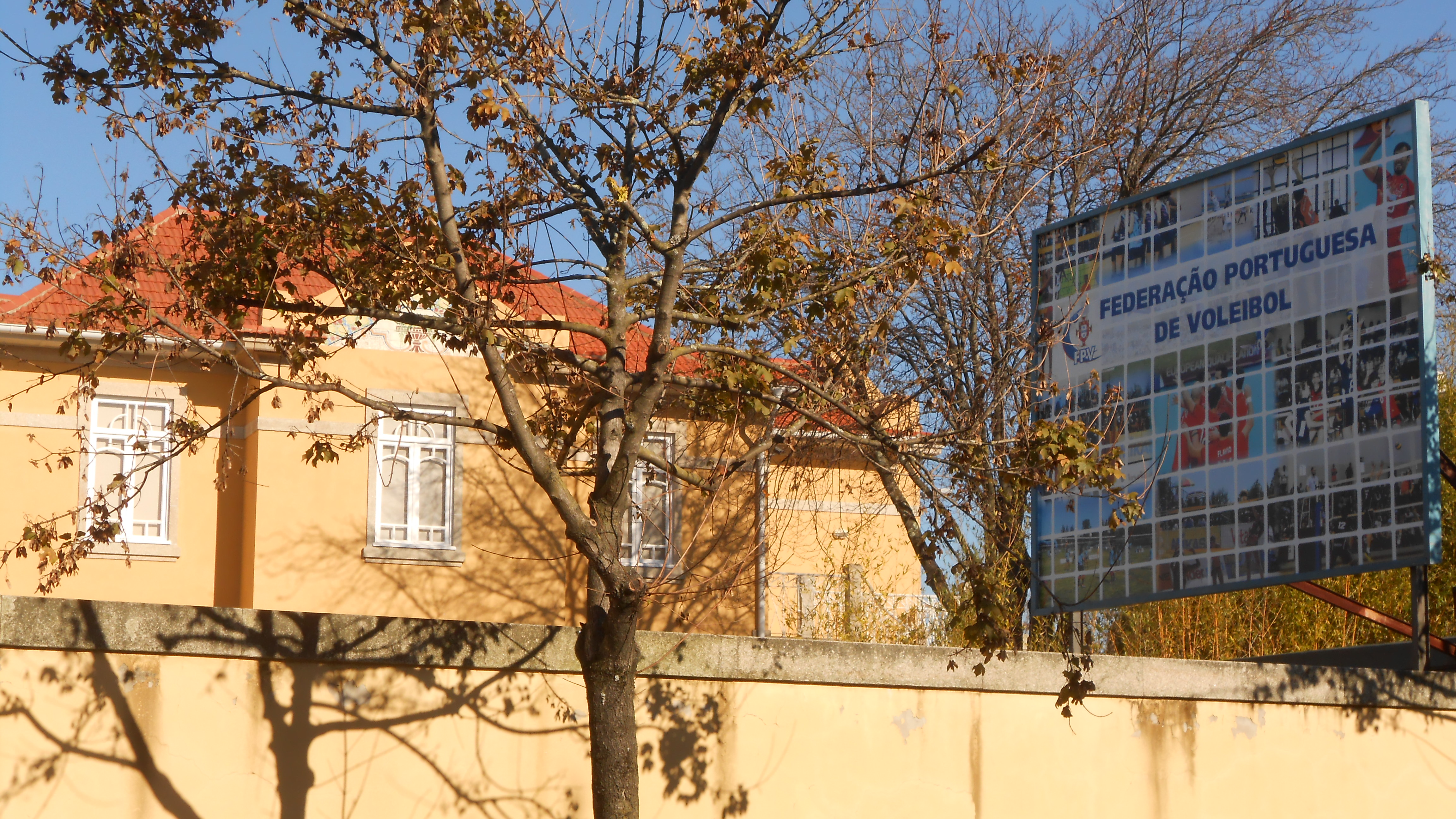 The portuguese volleyball federation in Oporto.